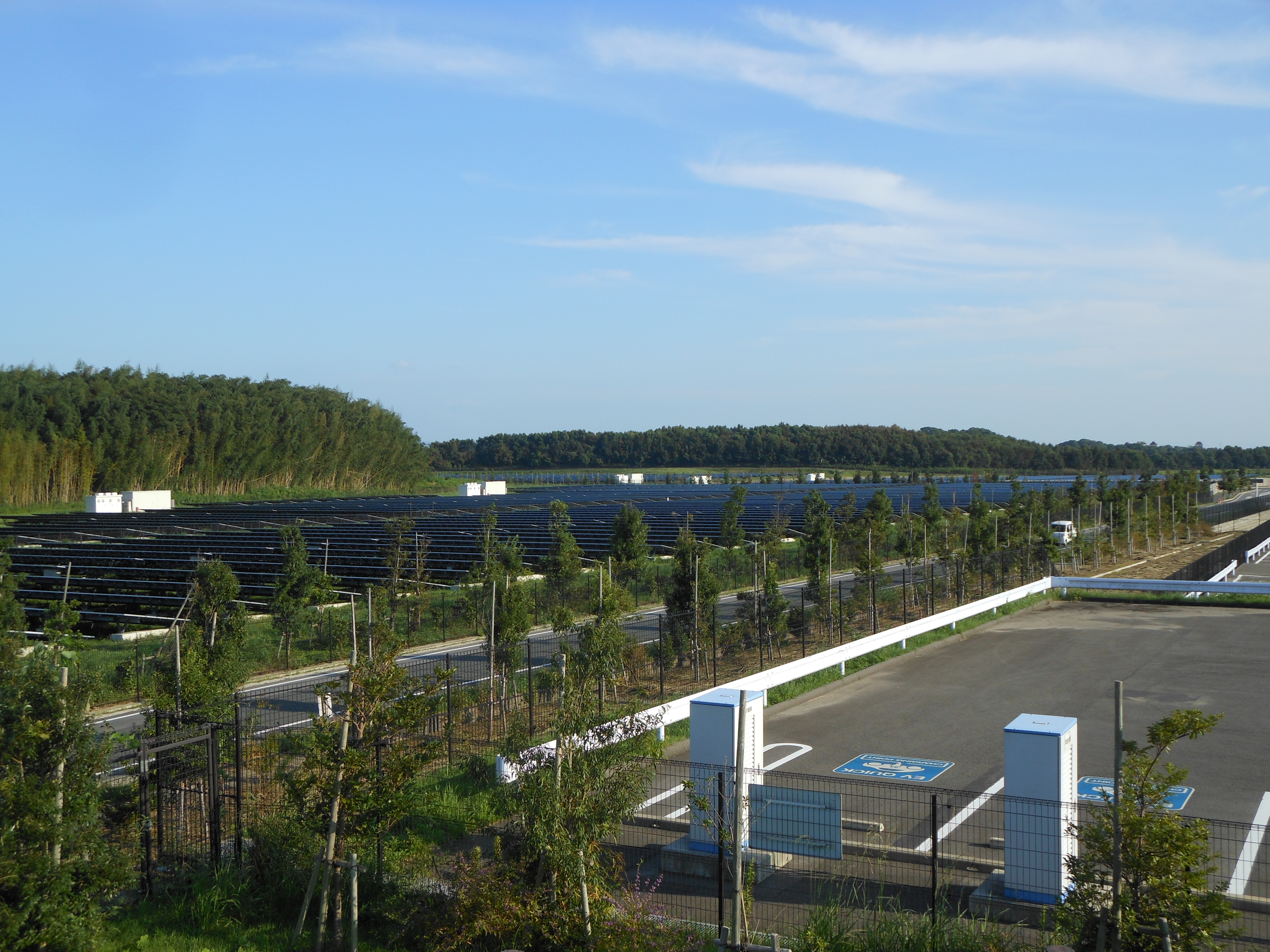 Yoshinogari photovoltaic power plant and Forest of Yoshinogari Historical Park in Kanzaki city, Saga prefecture.